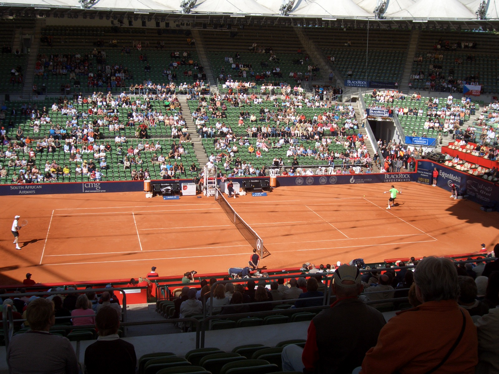 Marat Safin vs Tomáš Berdych at the Hamburg Masters 2008